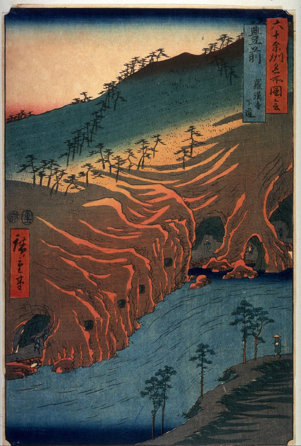 Buzen Rakanji of the Famous Scenes of the Sixty States.